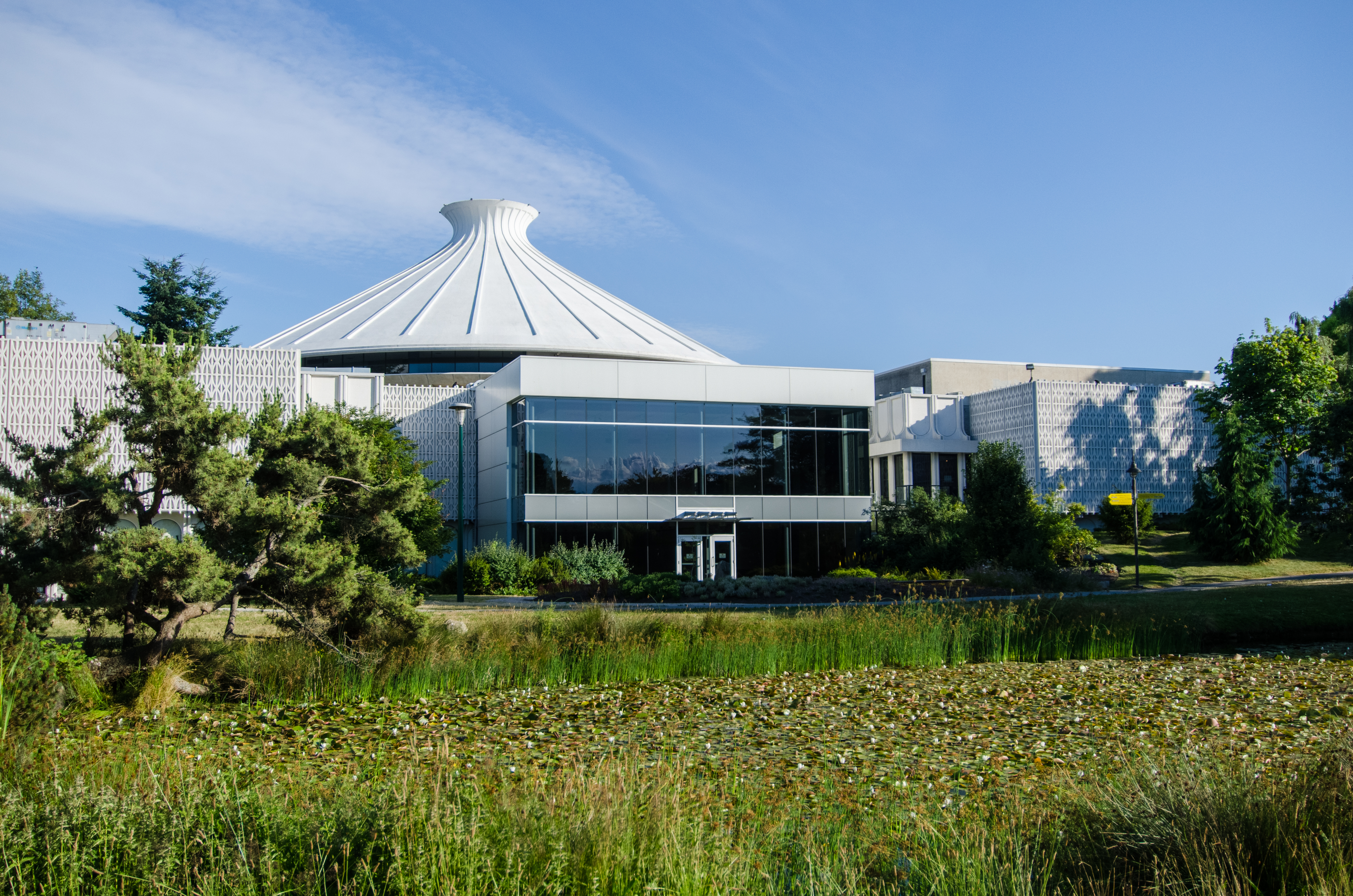 View of the Museum of Vancouver and the H.R. MacMillan Space Centre from Vanier Park